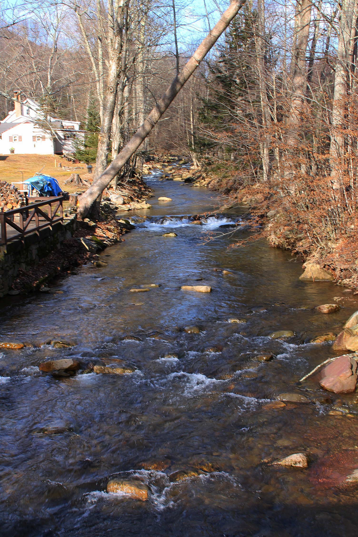 Elk Run looking upstream in Elk Grove, not far from its mouth